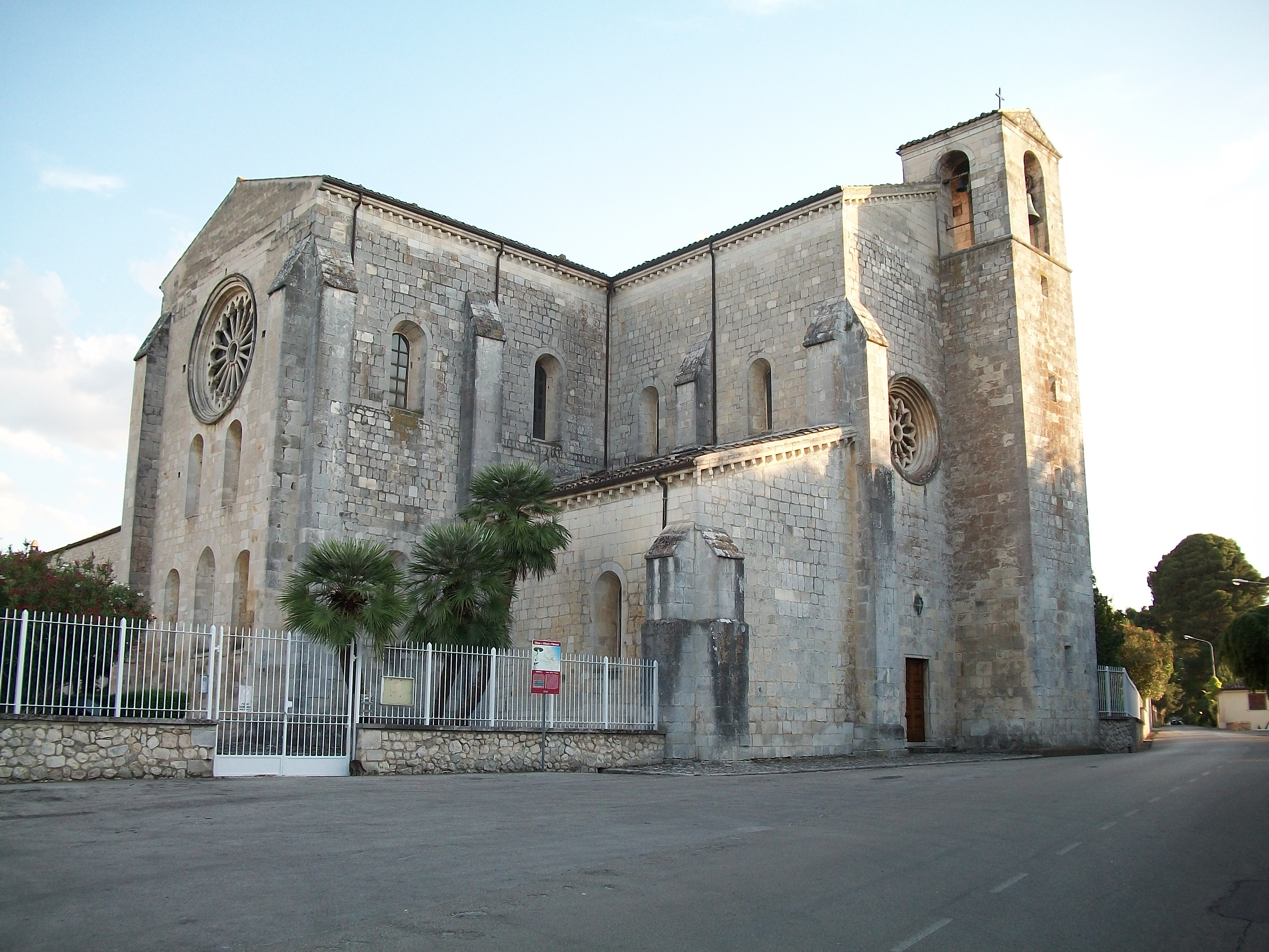 Abbey church of Santa Maria Arabona, Manoppello, Italy. Foto scattata da Alan_p.